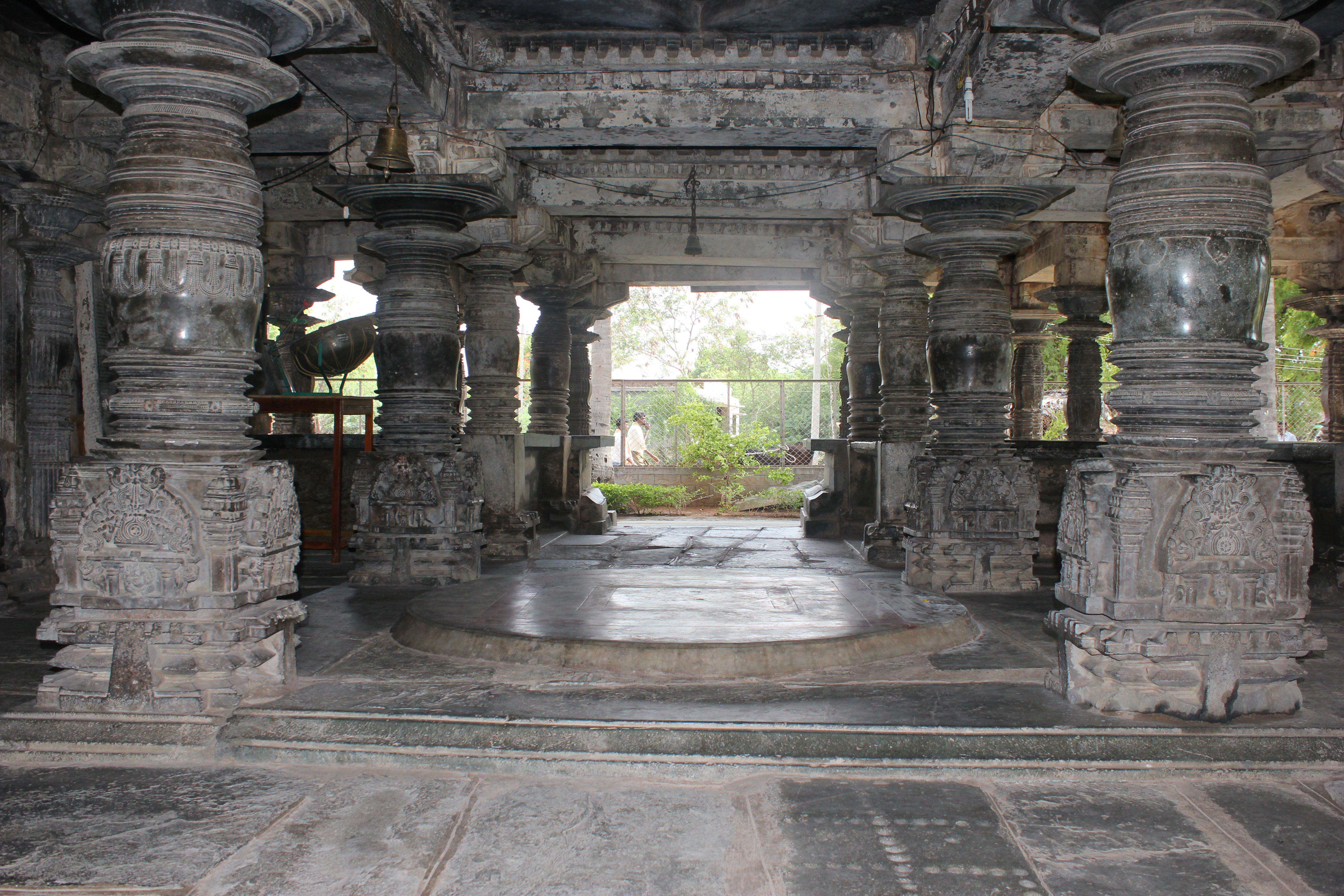 This photograph was taken by me at the Kalleshvara temple (also spelt Kalleshwara or Kallesvara) at Ambali in Bellary district, Karnataka state, India. The temple was built by the Western (Kalyani) Chalukya King Vikramaditya VI in 1083 A.D.